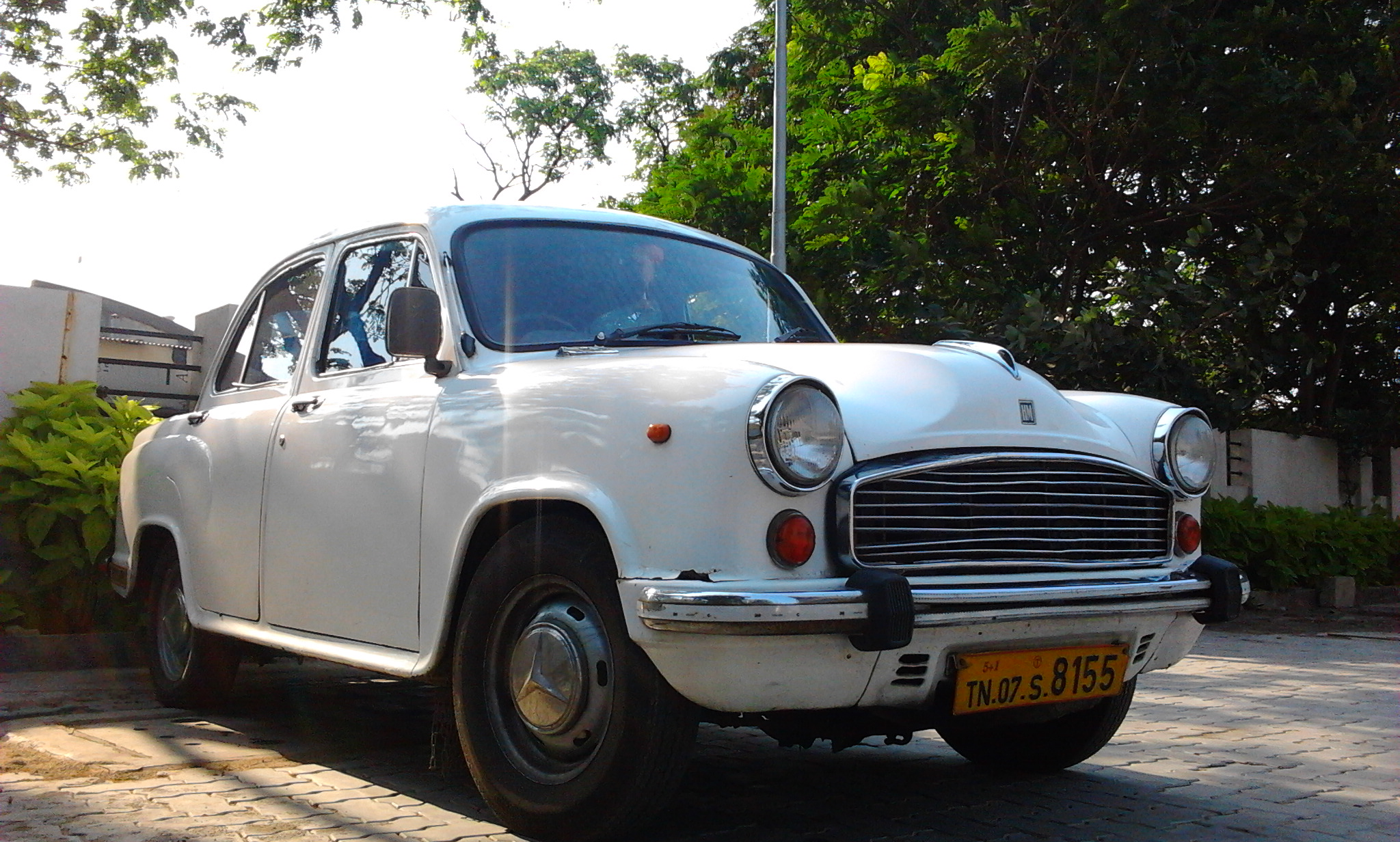 Photoed using Samsung Wave 525.